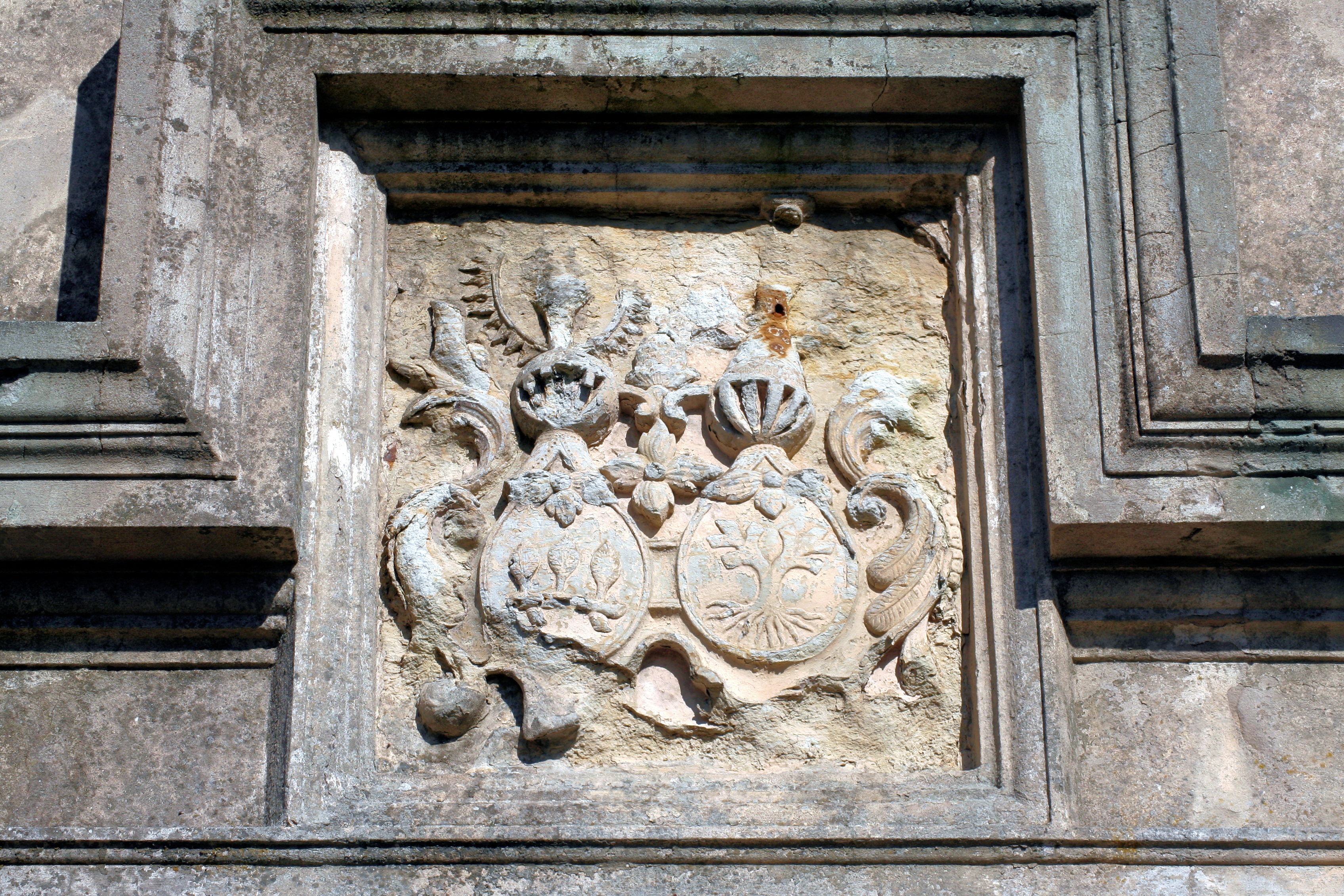 Coat-of arms of church founders in Dolsk (West Pomerania)